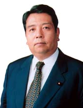 Japanese politician Seiichiro Murakami, inaugurated as Minister of State for Regulatory Reform in September 2004